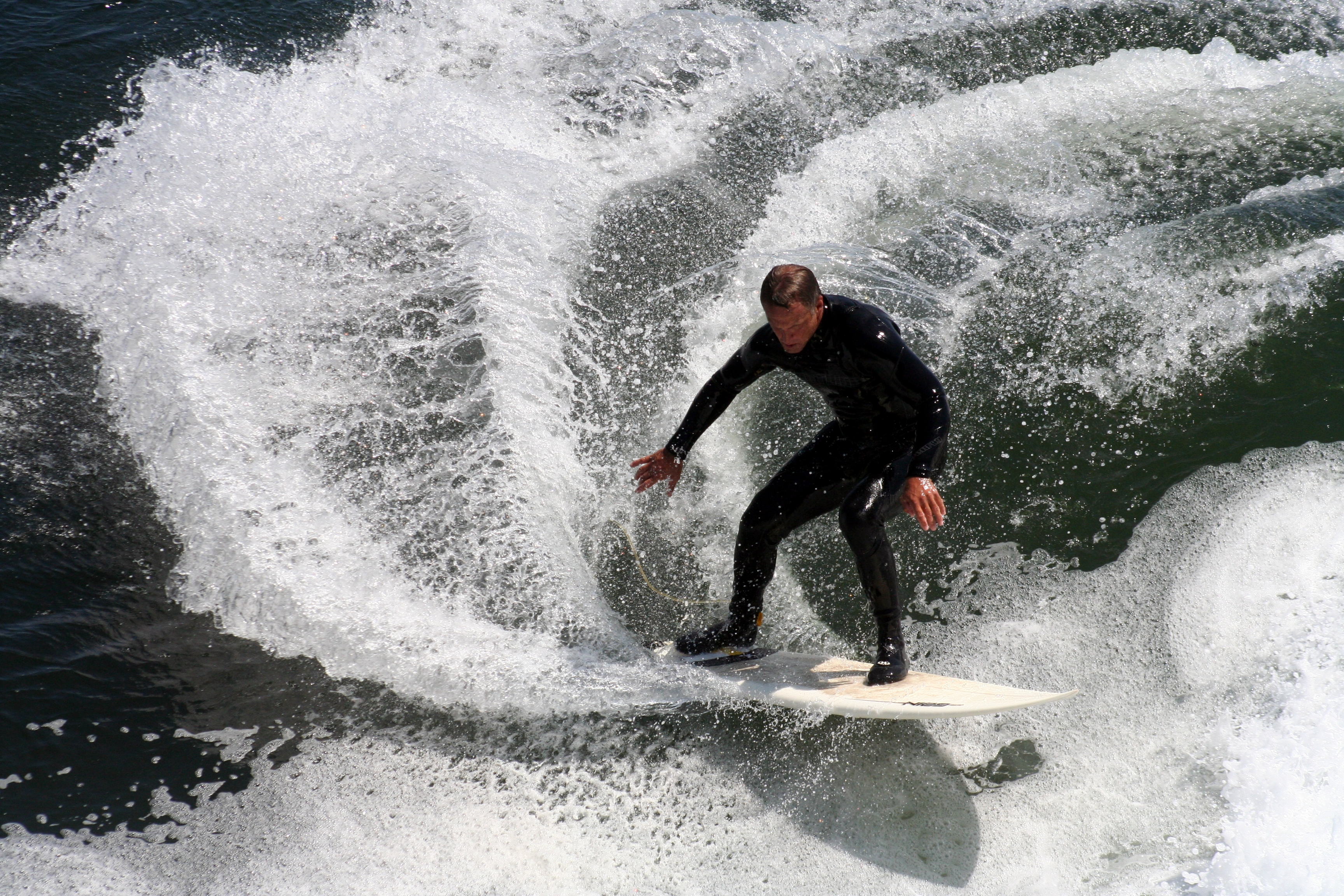 A surfer performing a gash, or very sharp turn. Santa Cruz and the surrounding Northern California coastline is a popular surfing destination, however the year-round low temperature of the ocean in that region (averaging 57ºF/14ºC) necessitates the use of wetsuits.